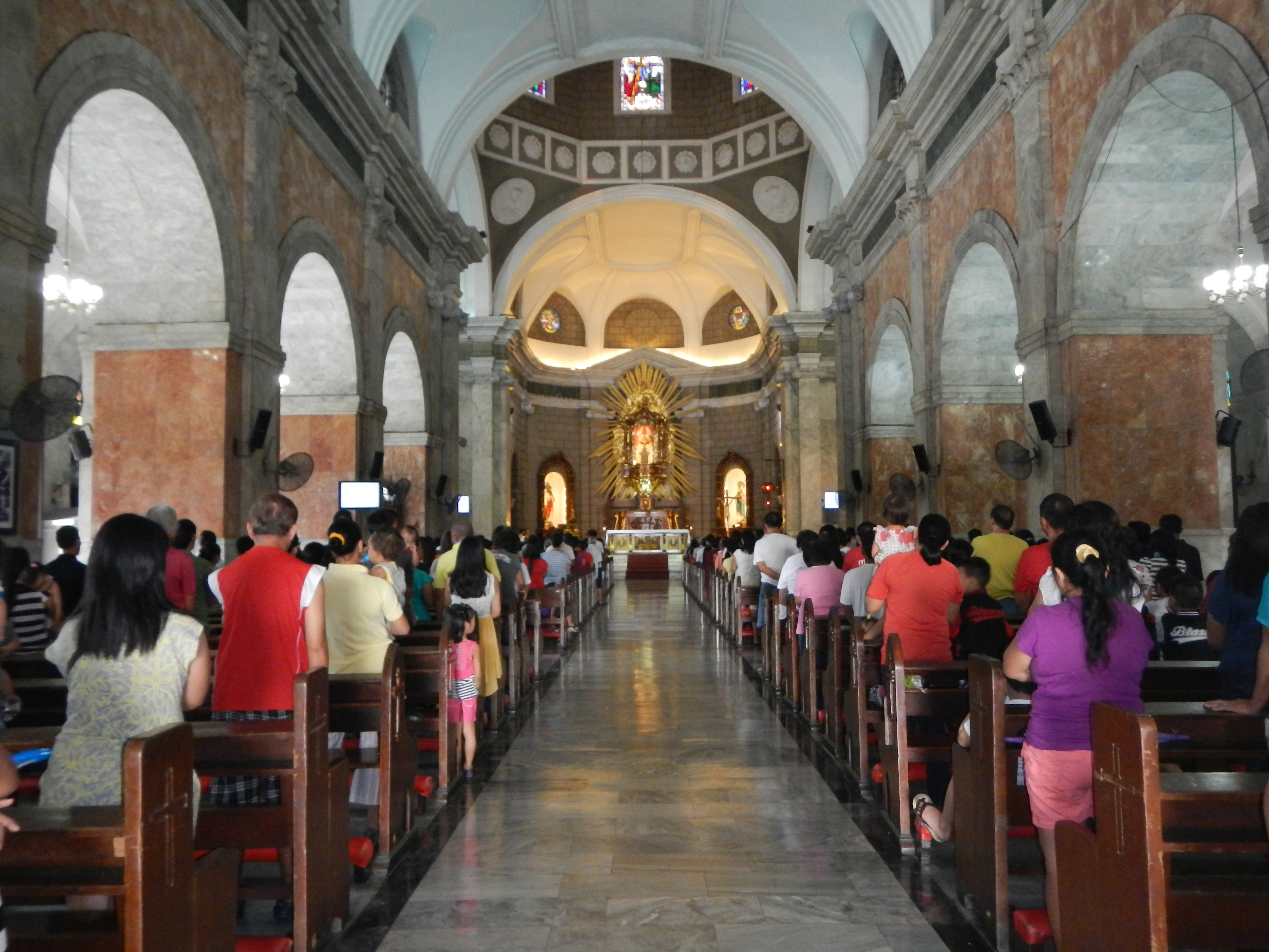 Santo Niño de Tondo Parish[1]Sto. Niño de Tondo Parochial Church[2]. The present church is 65 meters long, 22 meters wide and 17 meters high. It has one main central nave and two aisles connected by solid columns, and is Neo-Classical inspired with its Ionic pilasters and buttresses supporting the domes of the bell towers. On each side of the facase are twin towers. Straight lines and a rose window embellish the triangular pediment. It is located in Tondo, Manila, Philippines. The feast of Sto. Niño of Tondo is celebrated every third week of January.[3][4]Tondo, Manila [5] [6] [7]Coordinates: 14°36'28"N 120°58'2"E Established by Franciscan priests on May 3, 1572. Construction of its first stone structure started in 1611 under the term of Fr. Alonzo Guererro and completed by 1695. Damaged and rebuilt after the earthquakes of 1740 and 1863. The present strucure was built after World War II.[8][9][10]Roman Catholic Archdiocese of Manila [11]Vicariate of Sto. Nino